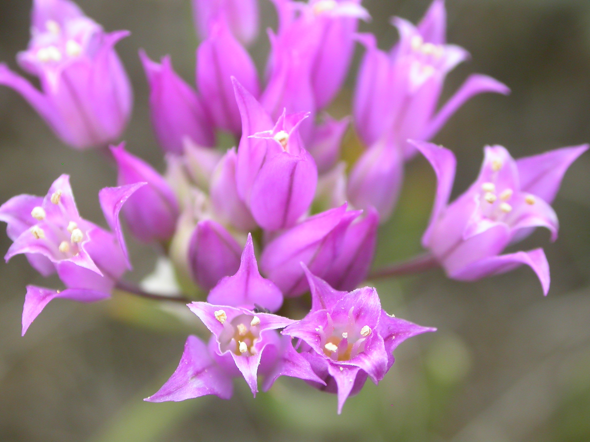 Although common, this onion is not as frequently enountered as the early summer white flowering Allium textile.